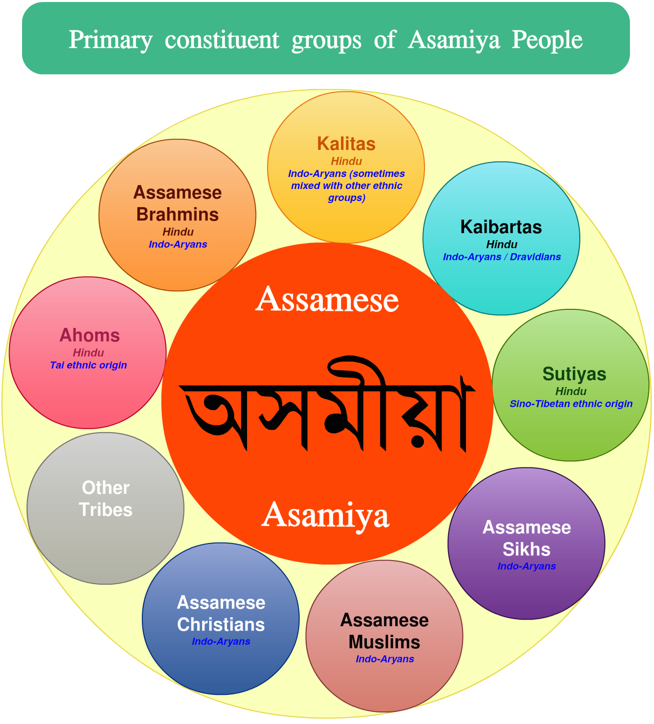 Shows major constituent groups of Assamese (Asamiya) people in the State of Assam.